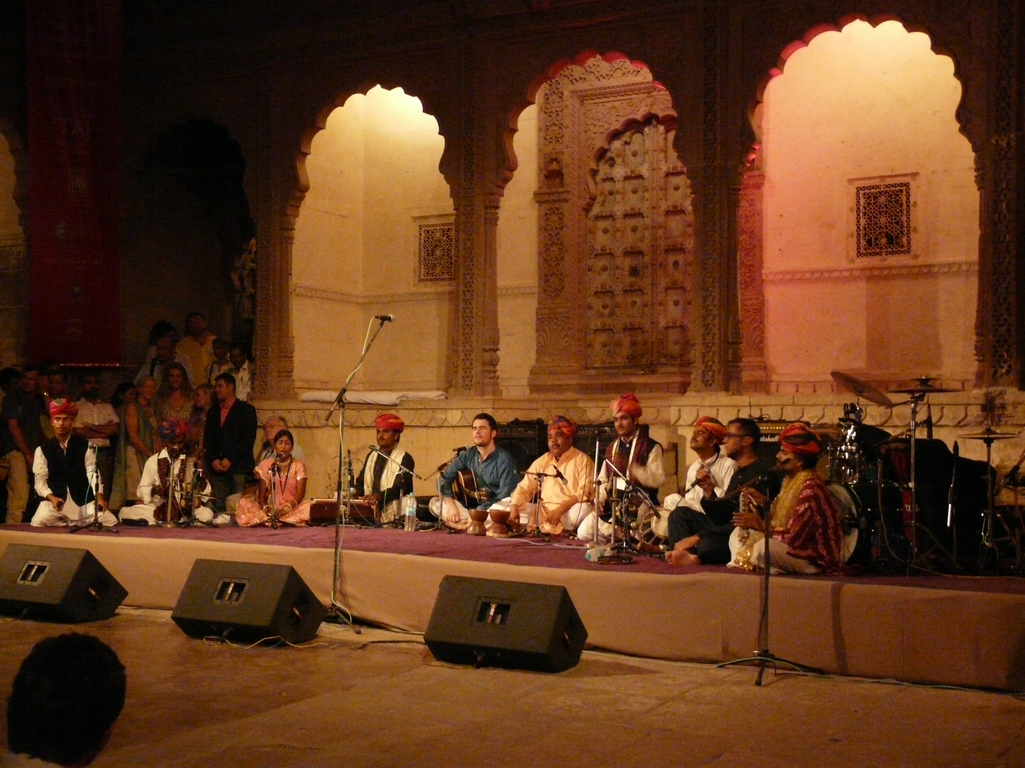 The group Dharohar performing in Mehrangarh Fort during the 2009 Jodhpur RIFF (Rajasthan International Folk Festival)!